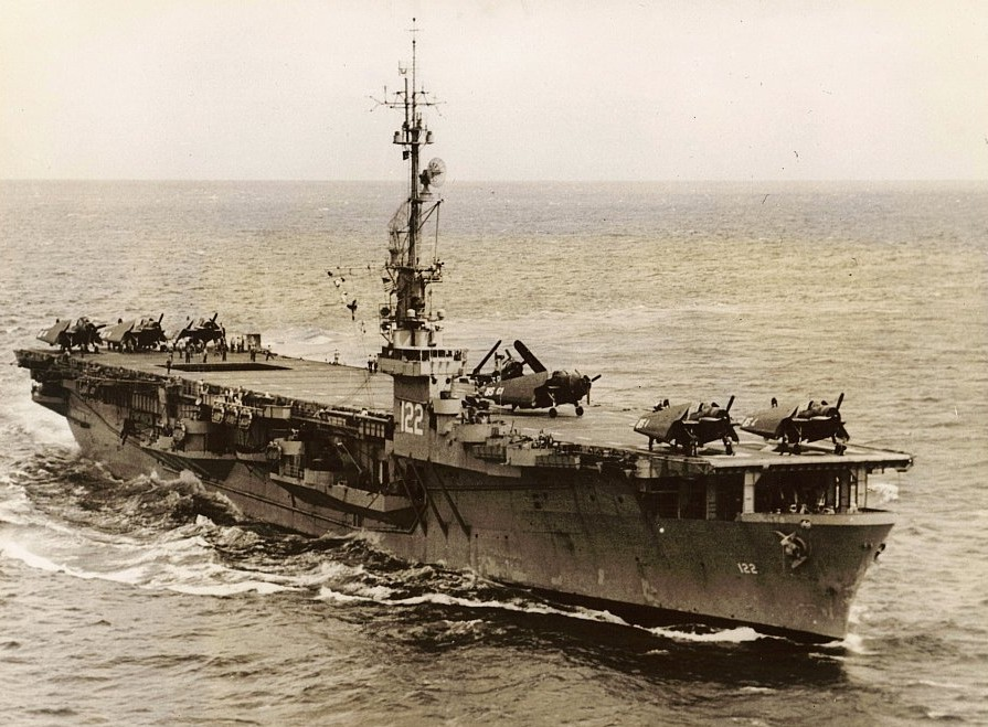 The U.S. Navy escort carrier USS Palau (CVE-122) underway, 10 May 1950. Note the anti-submarine Grumman TBM-3E Avengers on deck.